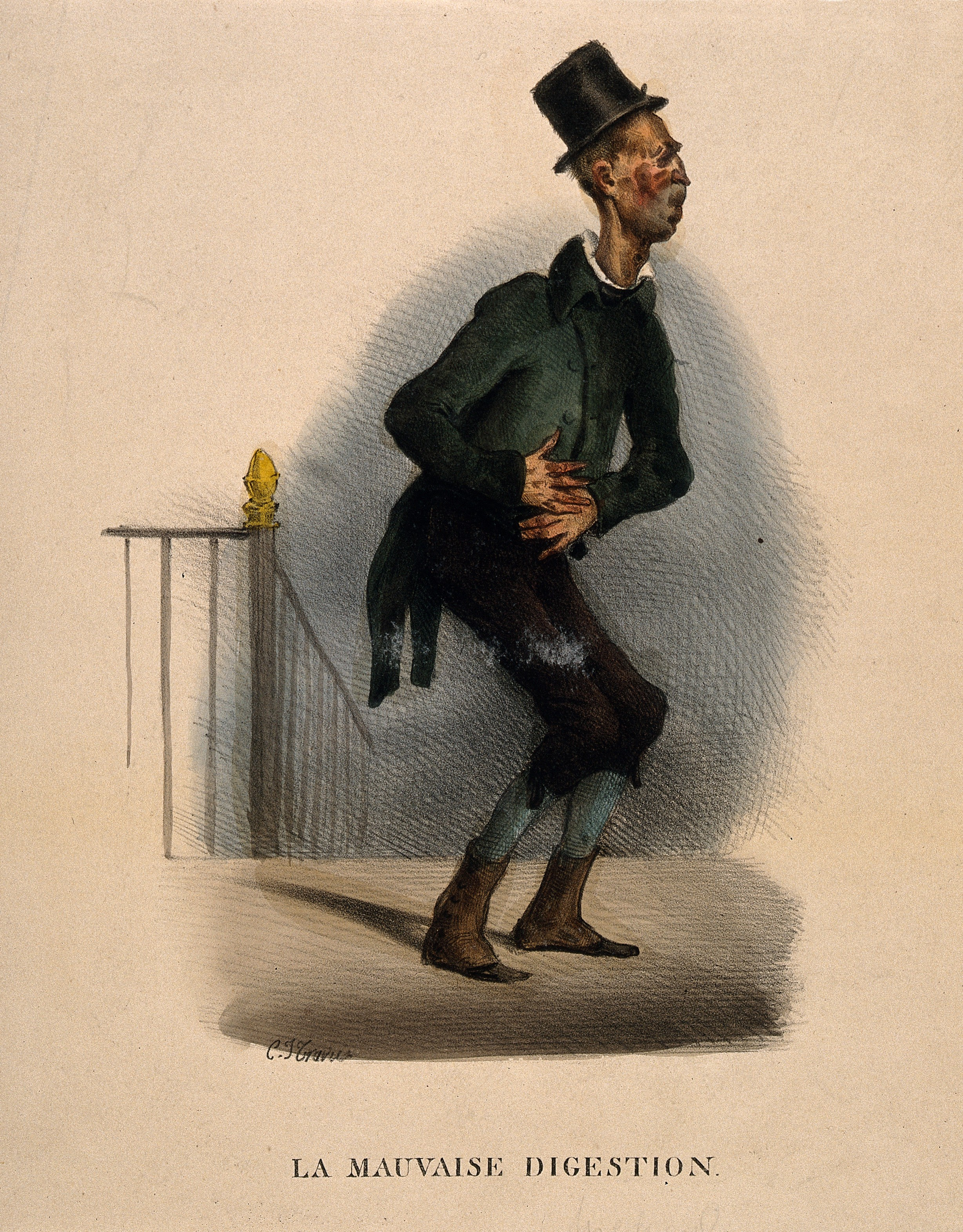 Topic-LCSH: Digestion. Indigestion. Pain. Poor. Food habits. Social classes. Nutrition policy -- France -- 19th century. Stomach -- Diseases. Genre/Technique: Humorous pictures. Lithographs.